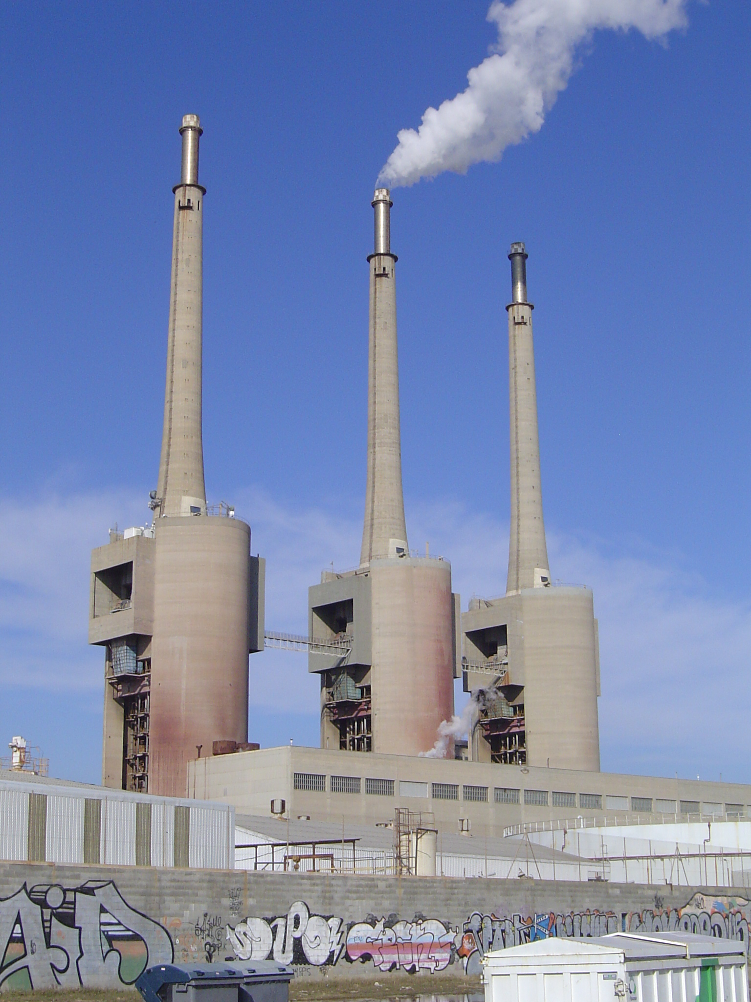 Electric power station of Sant Adrià del Besos.